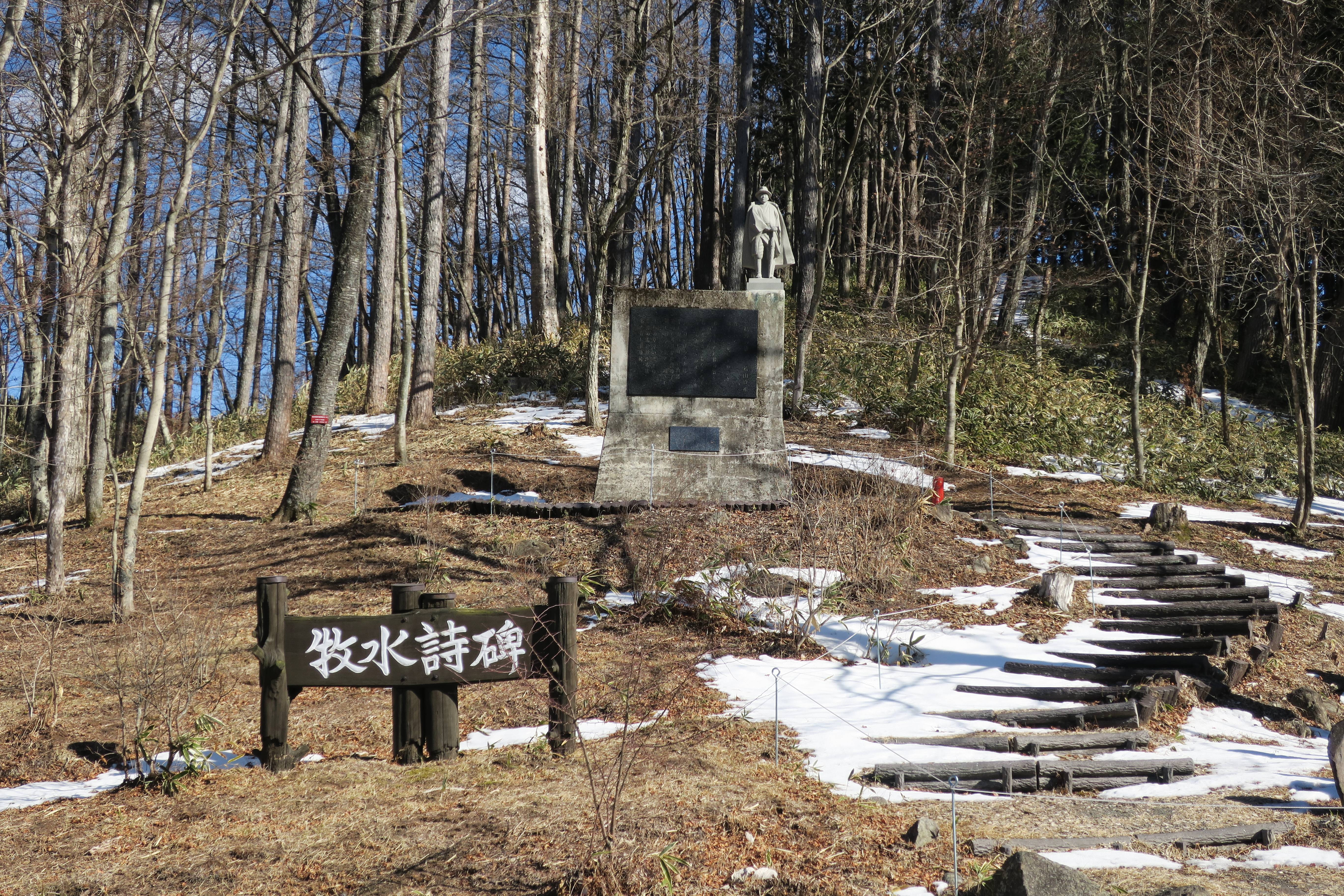 Kuresaka Pass (Nakanojō, Gunma).